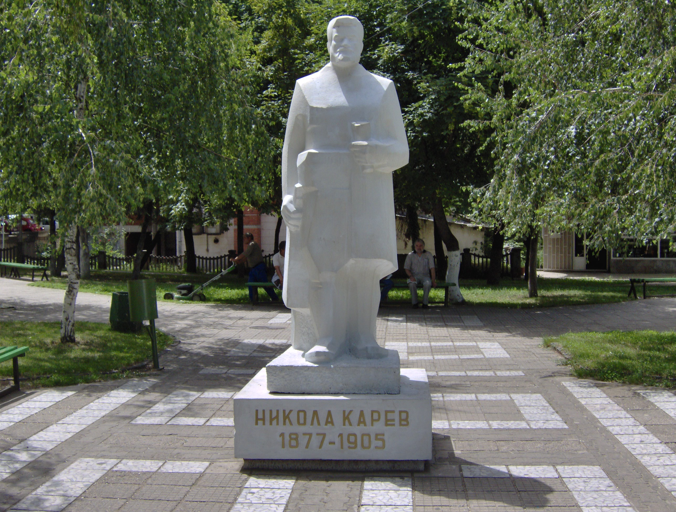 The monument of Nikola Karev - Kocani